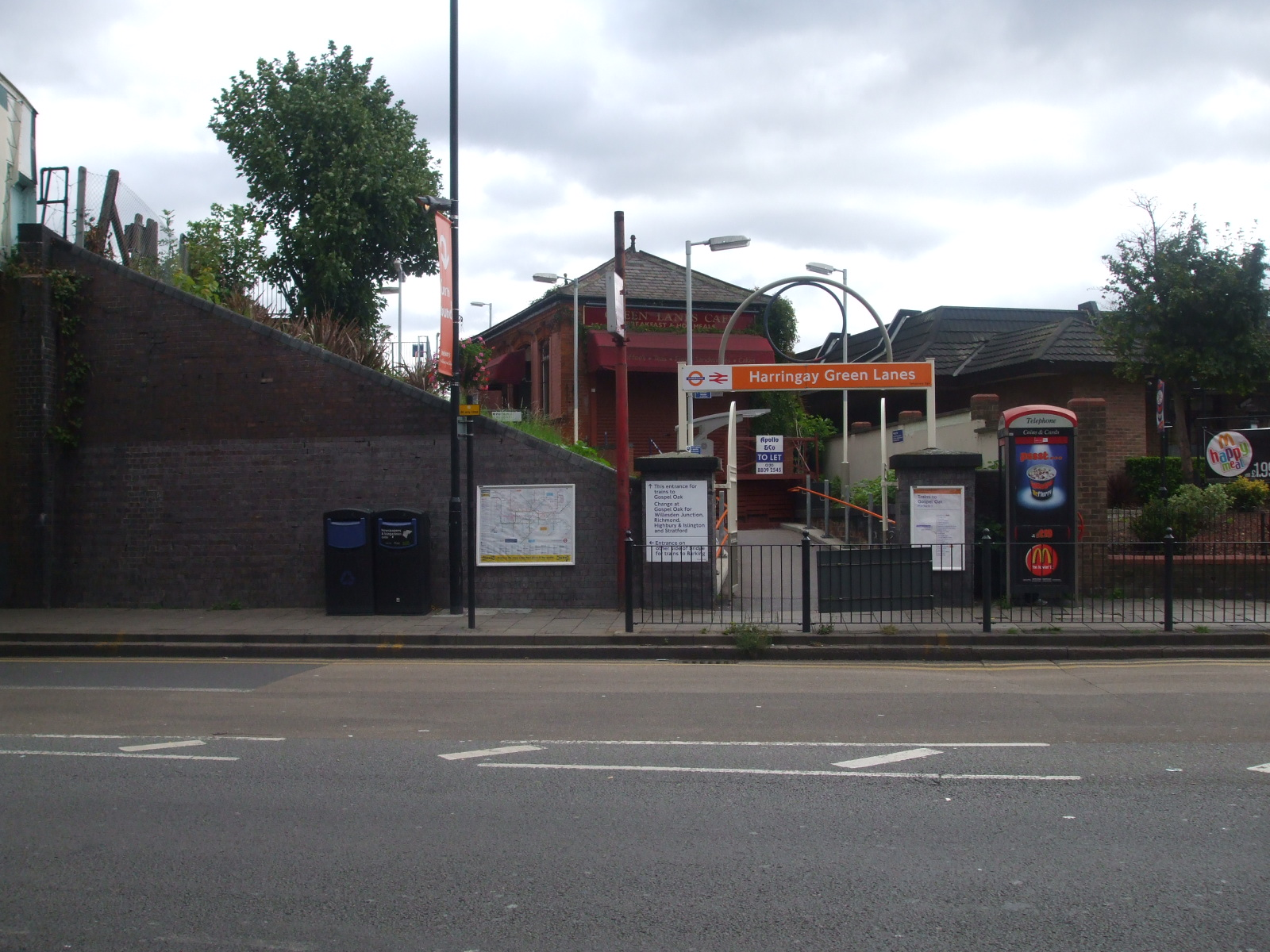 Harringay Green Lanes entrance on the westbound side. In the background is the original station building, now Green Lanes Cafe.